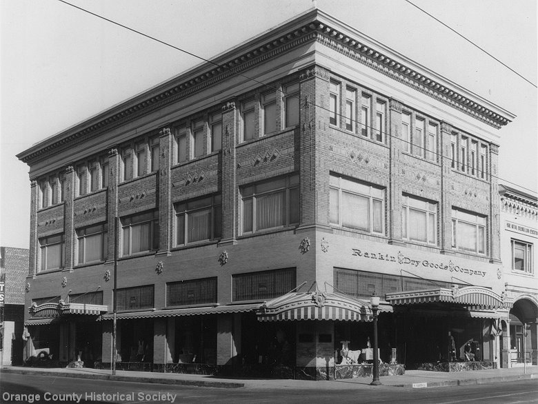 Rankin's Department Store, Santa Ana, California ca. 1917